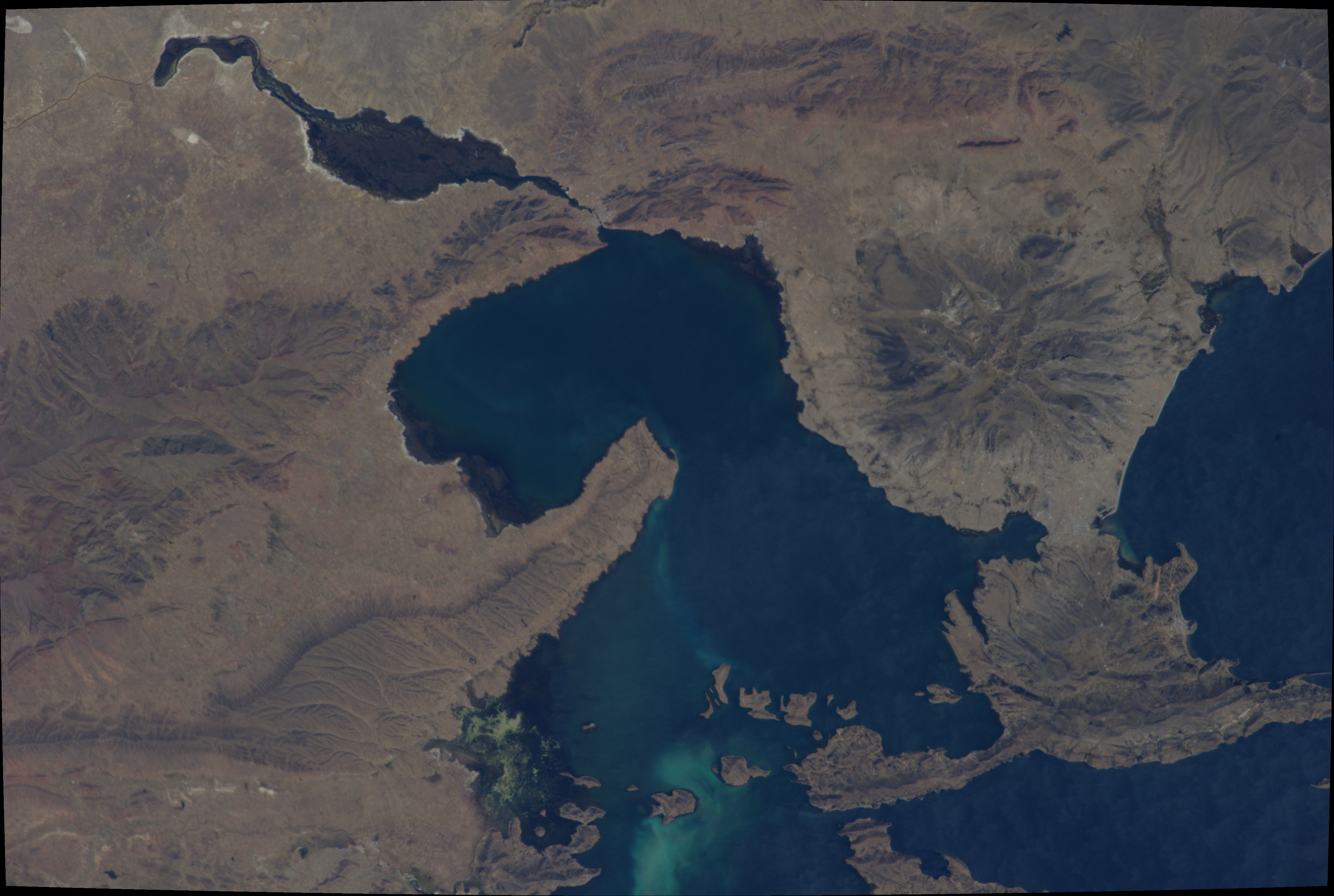 BOLIVIA, SOUTHEAST LAKE TITICACA, ISLETS, DESERT, RAVINES, WETLANDS, DESAGUADERO R.